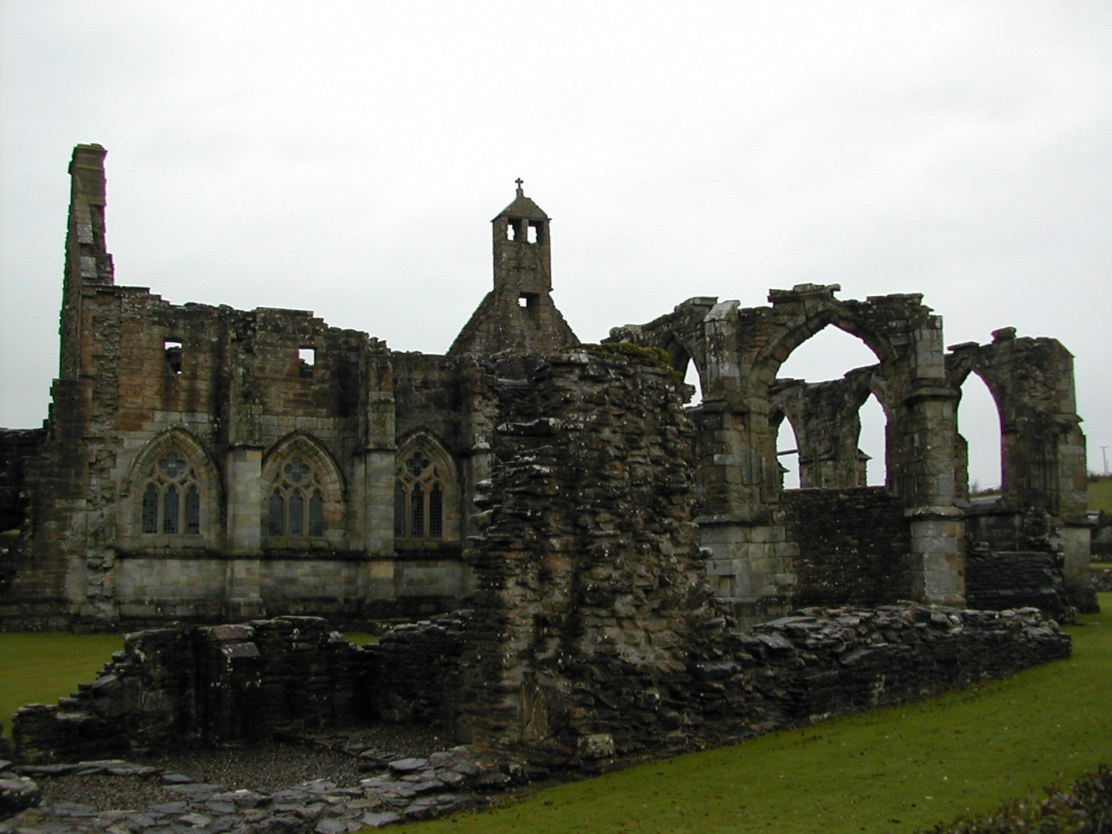 Nom du fichier : DSCN2625.JPG Taille du fichier : 782.9 Ko (801654 octets) Date : 2003/10/29 16:22:31 Taille de l'image : 1600 x 1200 pixels Résolution : 300 x 300 ppp Profondeur en bits : 8 bits/canal Attribut de protection : Désactivé Attribut Masqué : Désactivé ID de l'appareil : N/A Appareil : E775 Mode de qualité : FINE Mode de mesure : Multizones Mode d'exposition : Programme Auto Speed Light : Non Distance Focale : 5.8 mm Vitesse d'obturation : 1/117.6 seconde Ouverture : F2.8 Correction d'exposition : 0 IL Balance des blancs : Auto Objectif : Intégré Mode Synchro-Flash : Premier Rideau Différence d'exposition : N/A Programme Décalable : N/A Sensibilité : Auto Renforcement de la netteté : Auto Type d'image : Couleur Mode Couleur : N/A Saturation : N/A Contrôle Saturation : N/A Compensation des tons : Normal Latitude (GPS) : N/A Longitude (GPS) : N/A Altitude (GPS) : N/A